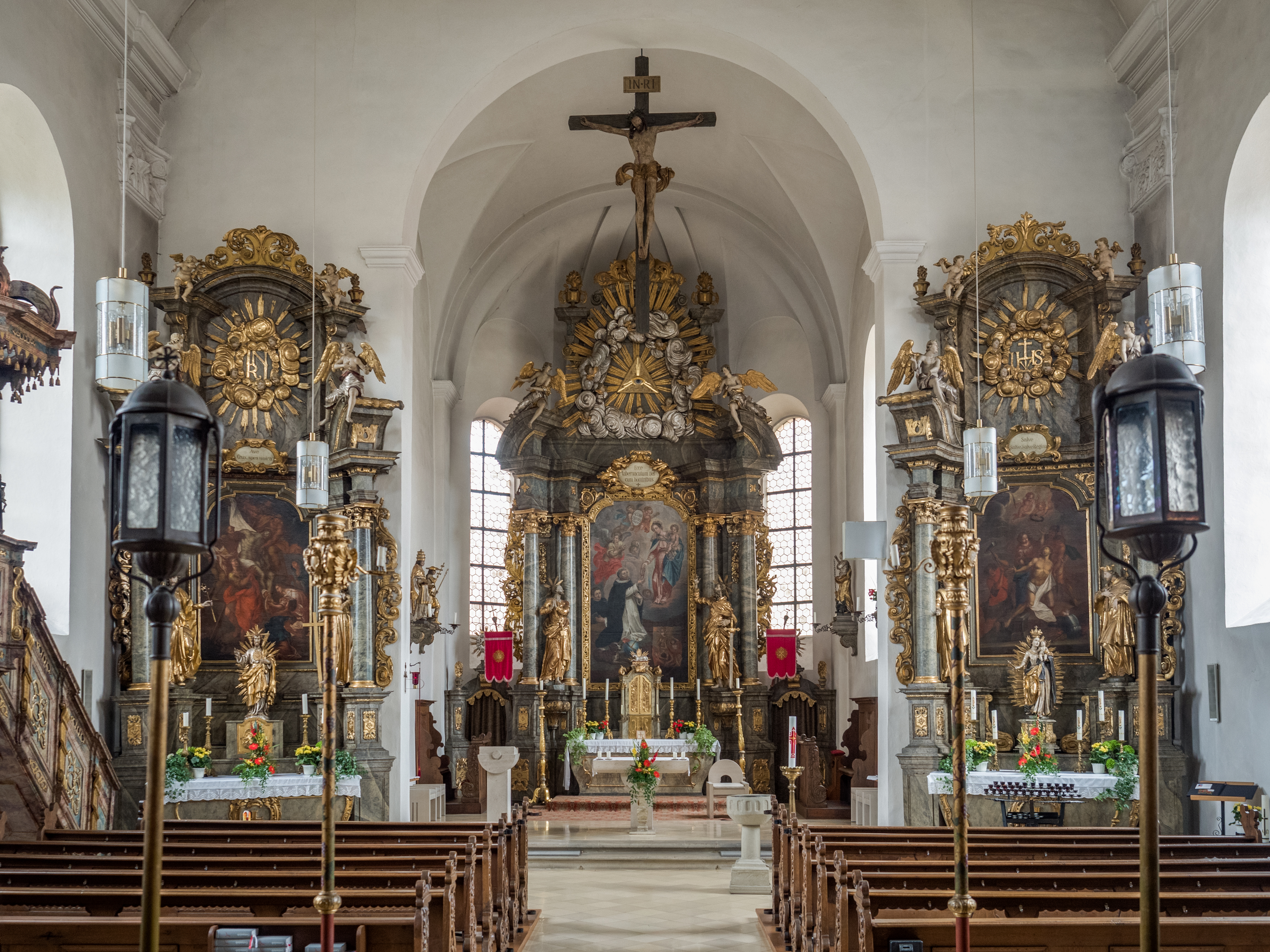 Chancel of the Catholic parish church of the Assumption in Stettfeld